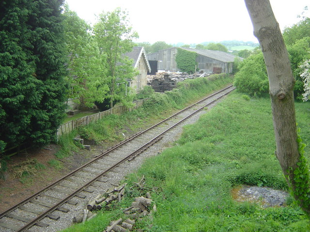 Hazelwood railway station Original description: The former Hazelwood Station